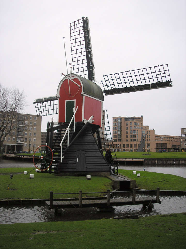 Windmill "Oudenhofmolen" in Oegstgeest, Netherlands